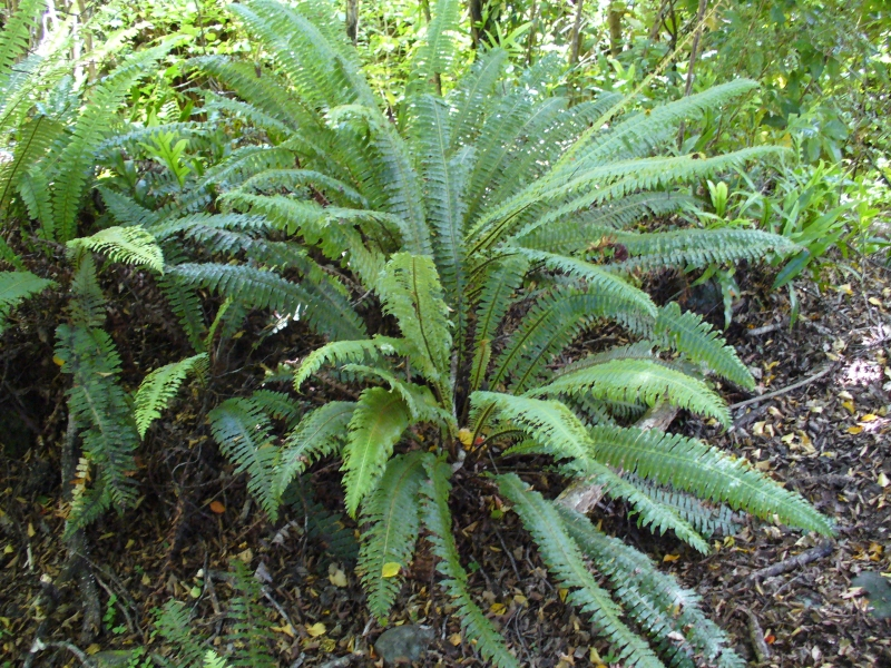 New Zealand Crown fern - species Blechnum discolor. Photographed in bushwalk near the suspension footbridge on the Buller River on the road from Murchison to Westport, New Zealand.